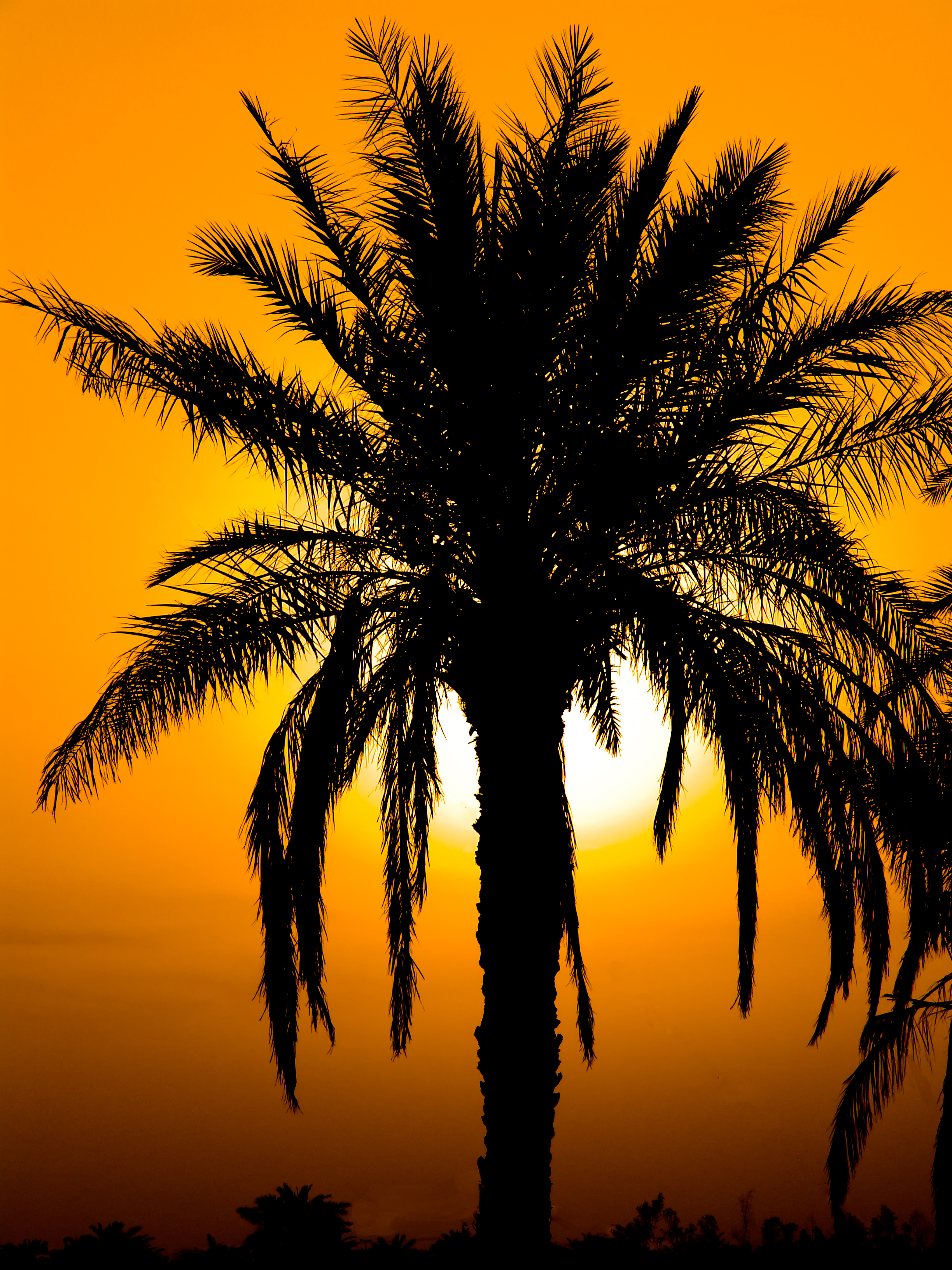 Palm and sunset in Minoo Island located in Persian Gulf